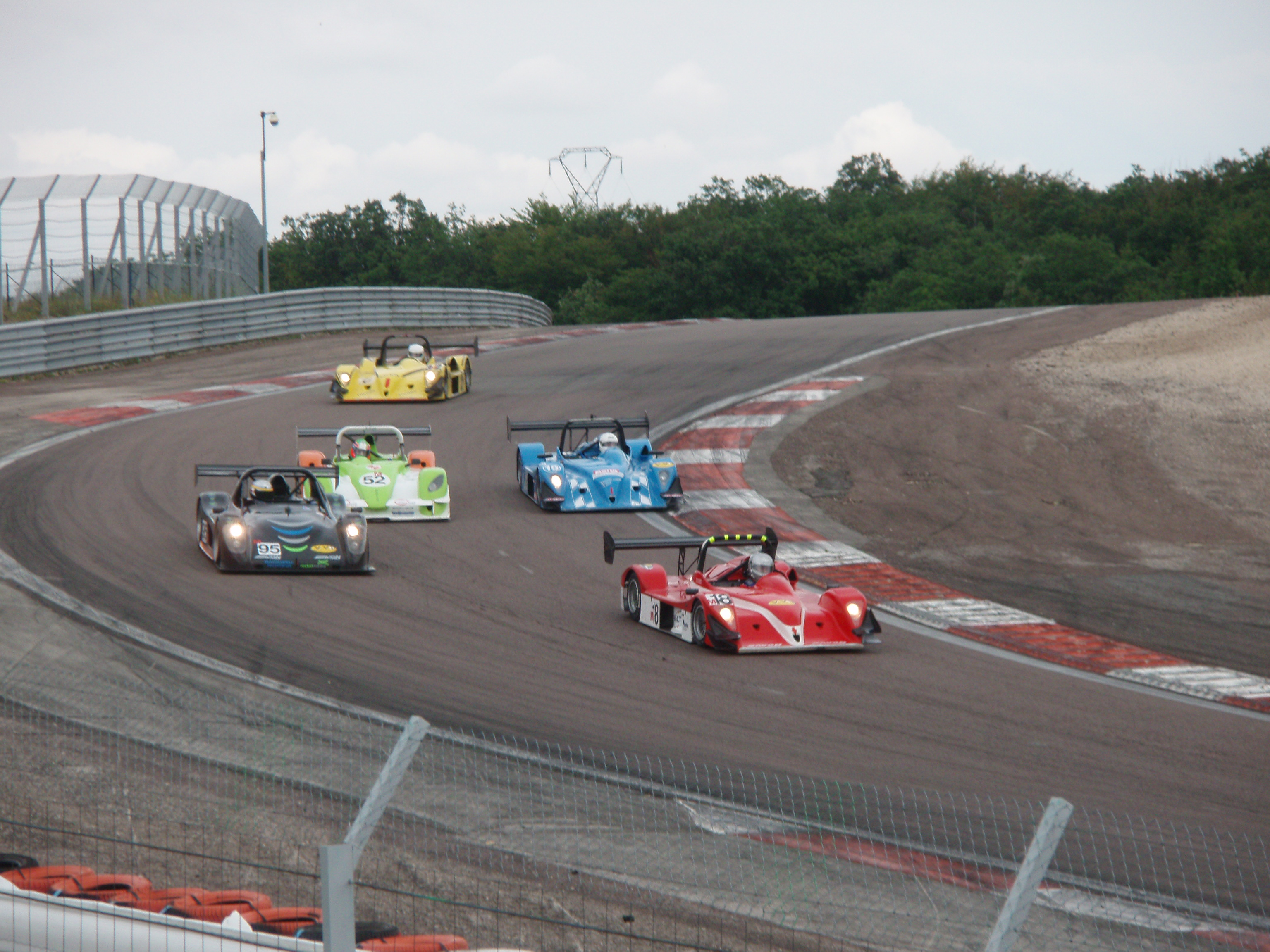 2007 FFSA Proto 2 litres race in Dijon-Prenois - Fight at the Gauche de la bretelle